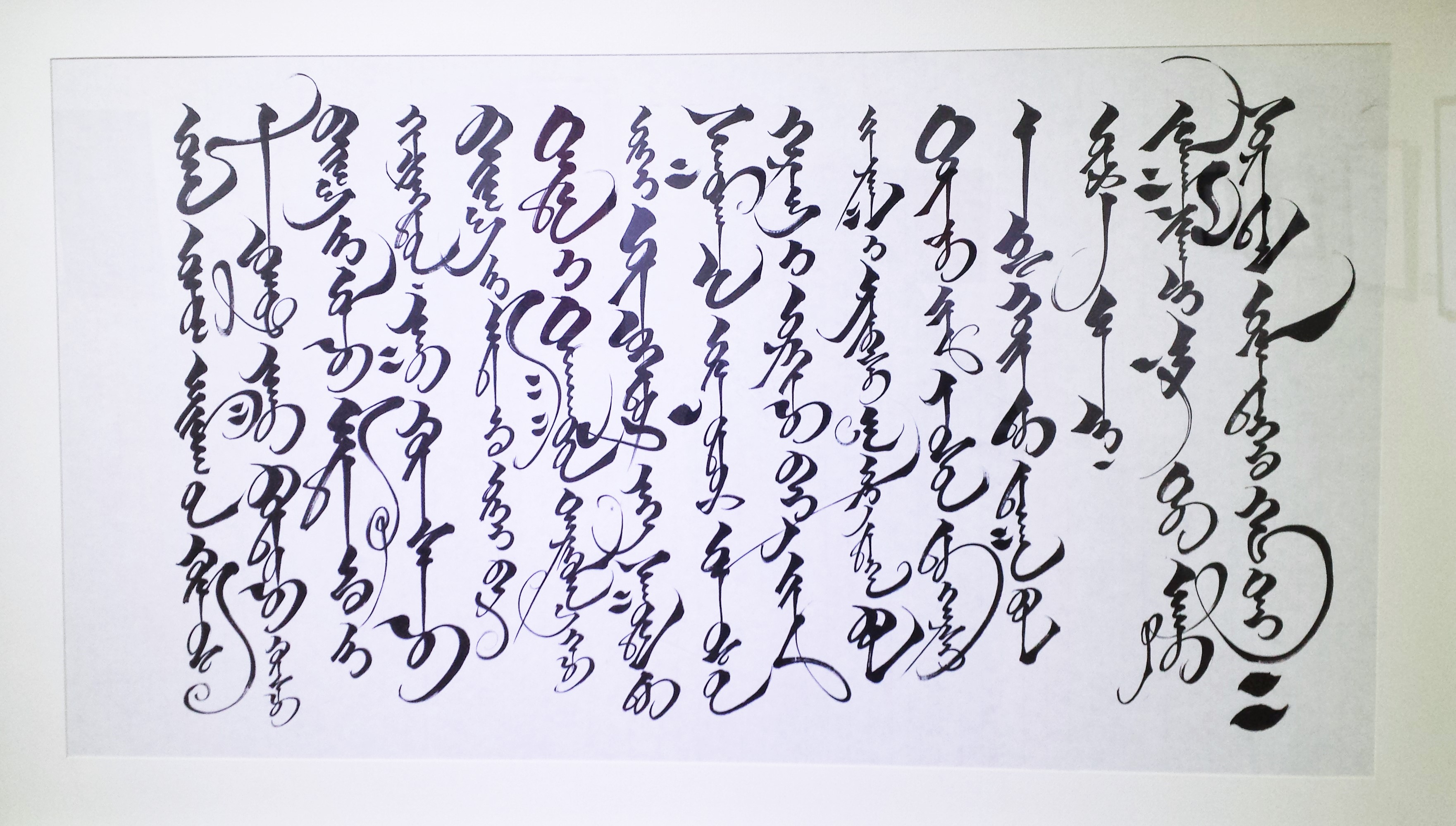 Mongolian Calligraphy